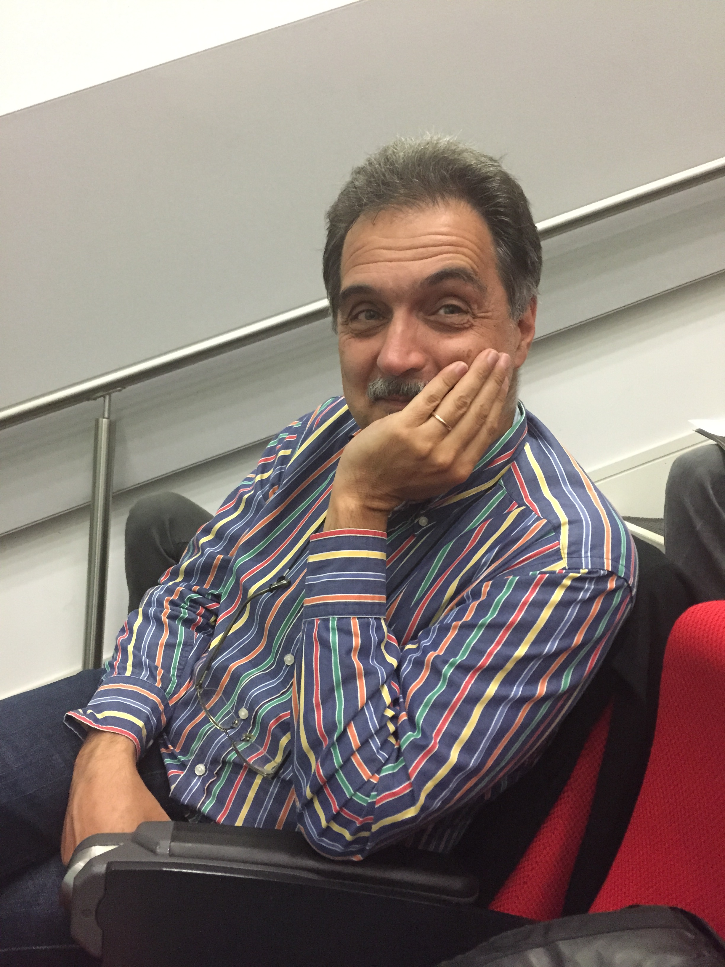 Gábor Hraskó, president of the Hungarian Skeptic Society and chairman of the European Council of Skeptical Organisations at the European Skeptics Congress in London in 2015